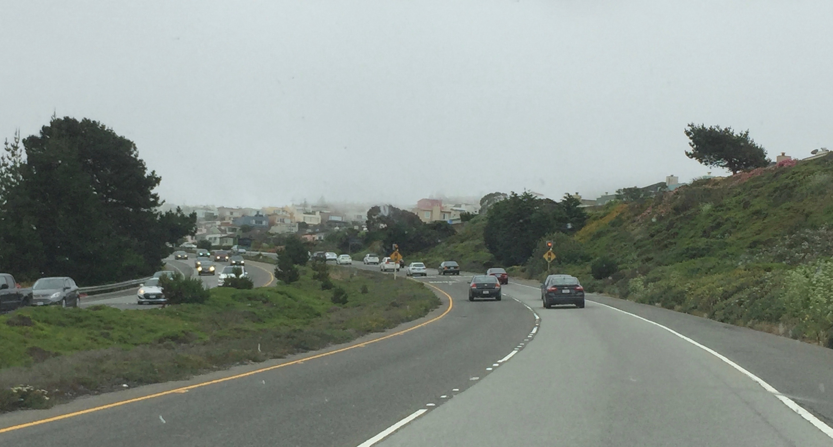 SR 35 briefly becomes an expressway west of Daly City.